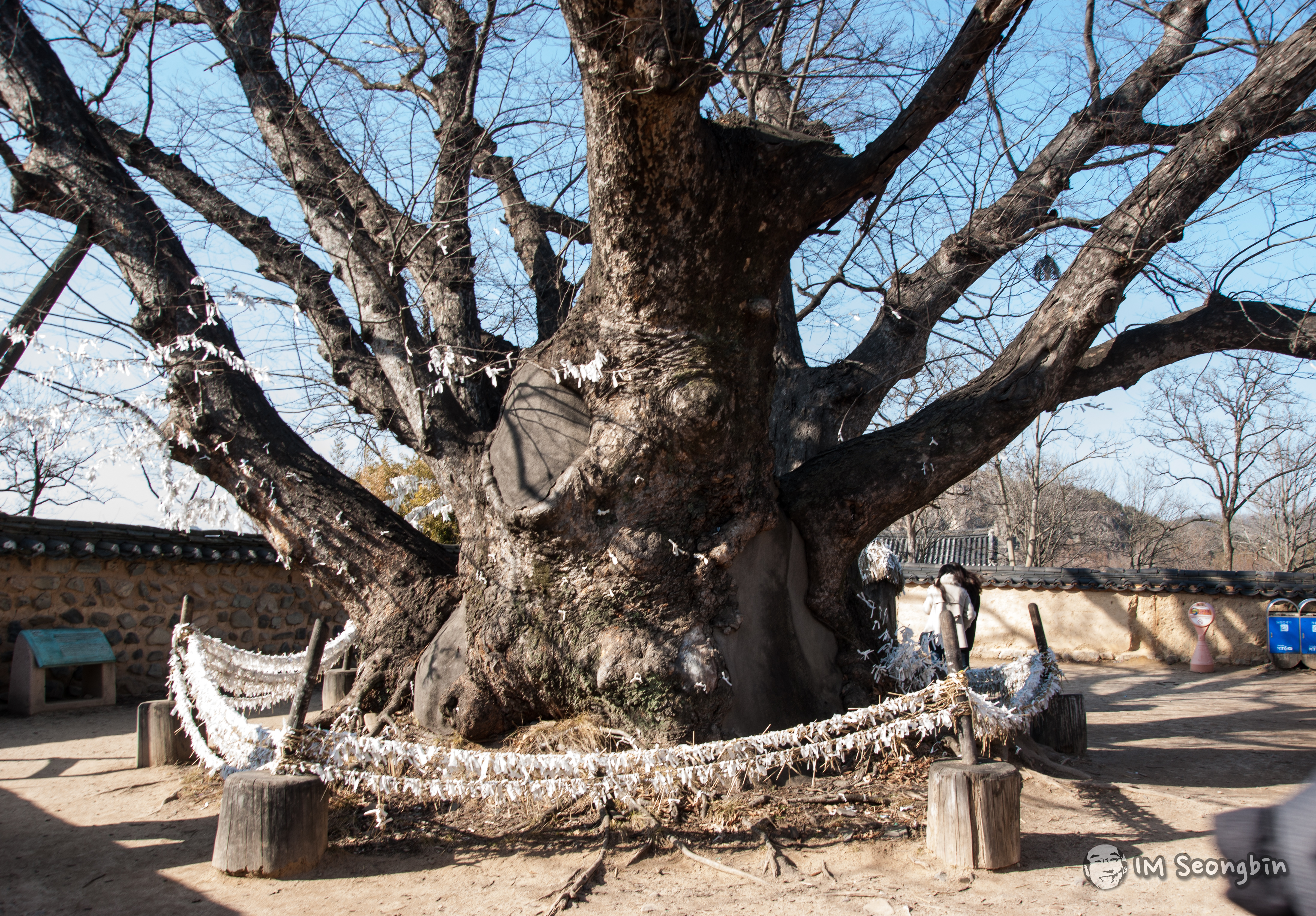 A village guardian tree (dangmok, sinmok) in Hahoe Folk Village, Andong. Every traditional Korean village had a guardian god, often believed to be (or reside in) trees.